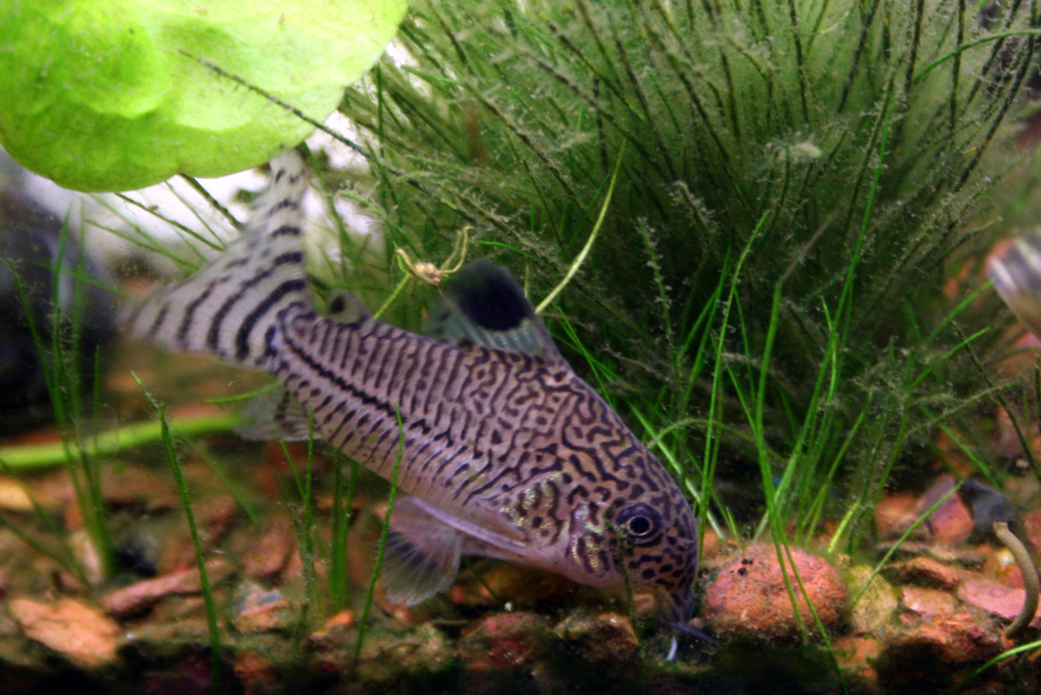 That's Mr. Julii to you.